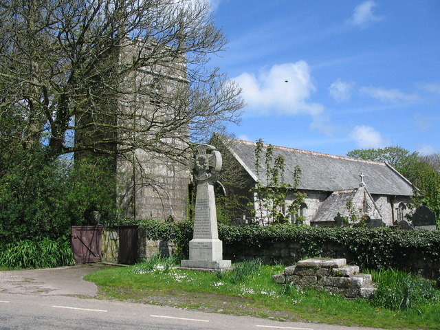 Sancreed war memorial